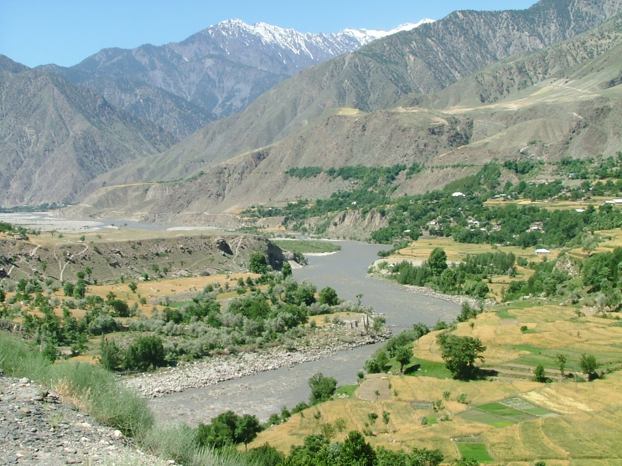 Valley on Ayun, Chitral seen from a distance and height.